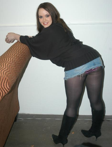 February 11, 2007: at the launch party for PrimeTimeUncensored